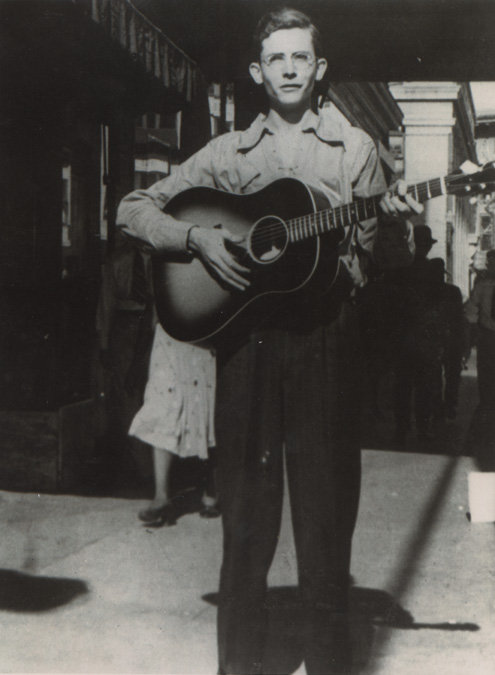 Hank Williams playing guitar on a sidewalk in Montgomery Alabama.